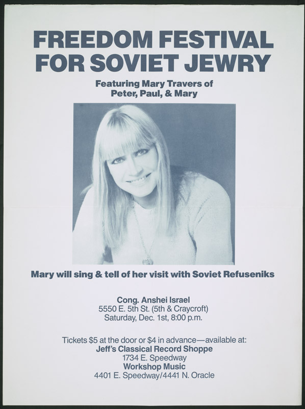 Date: 1984 Medium: Poster Repository: American Jewish Historical Society Parent Collection: National Conference on Soviet Jewry (I-181A) Link to Digital Object: Call number: aa-i181a-011 The poster was originally found in the Records of National Conference on Soviet Jewry (I-181A). See more information about this image and the collection by viewing the finding aid: Guide to the Records of National Conference on Soviet Jewry. Rights Information: No known copyright restrictions; may be subject to third party rights. For more copyright information, click here. To inquire about rights and permissions, or if you have a question regarding the collection to which the image belongs, please contact the Reference Department of the American Jewish Historical Society by email. Digital images created by the Gruss Lipper Digital Laboratory at the Center for Jewish History. Digitization of select American Soviet Jewry Movement material has been made possible through a generous grant from the National Historical Publications and Records Commission (NHPRC).